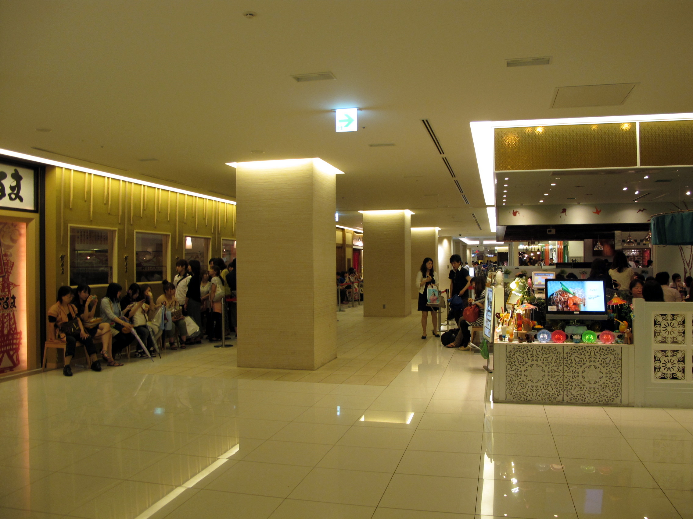 Osaka Station City Level 10 Lucua Dining